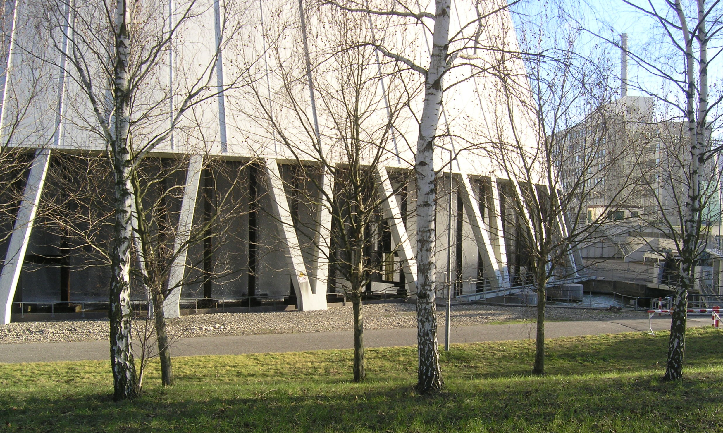 cooling tower of Philippsburg nuclear power plant